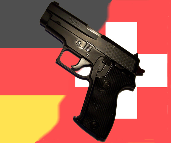 P225 Sig Sauer's picture